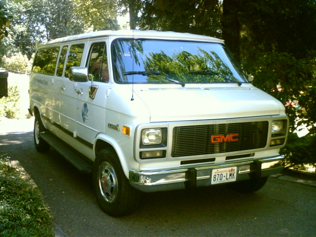 GMC Rally 15 pass van, New Hope International Church, Mercer Island, WA